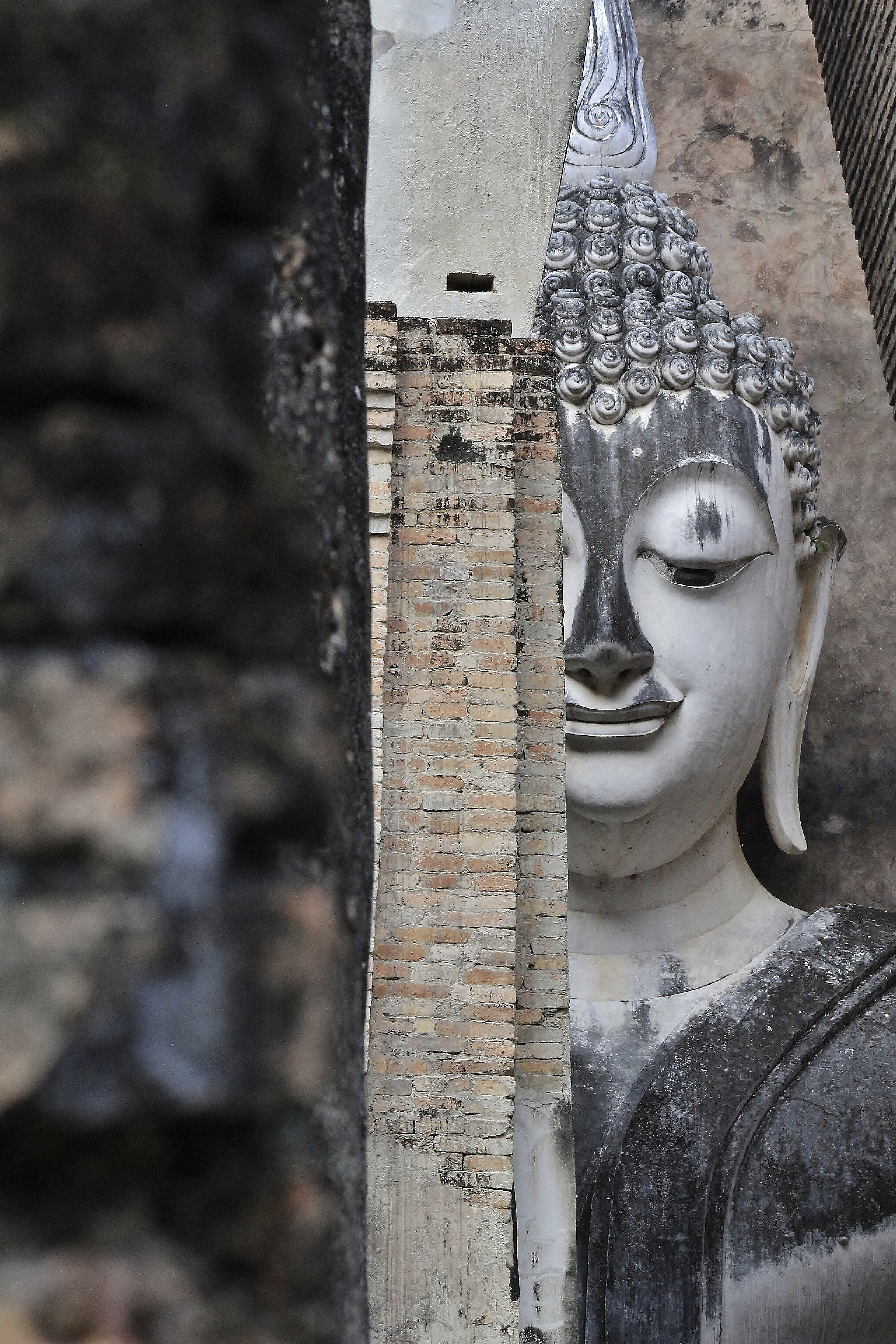 Wat Si Chum, Mueang Kao Subdistrict, Mueang Sukhothai District, Sukhothai Province